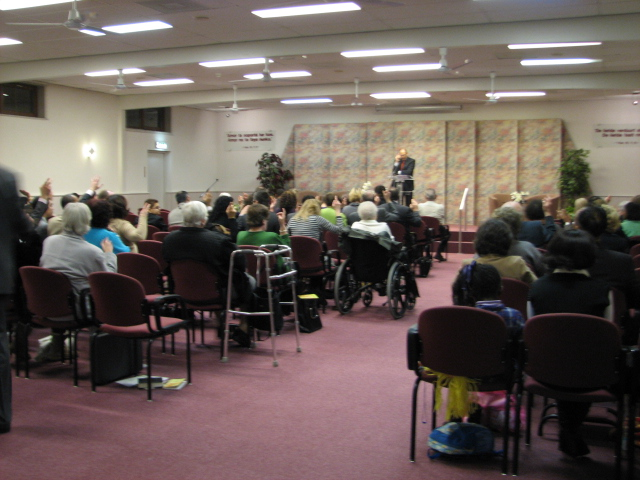 Kingdom Hall, Netherlands, Tilburg-Noord